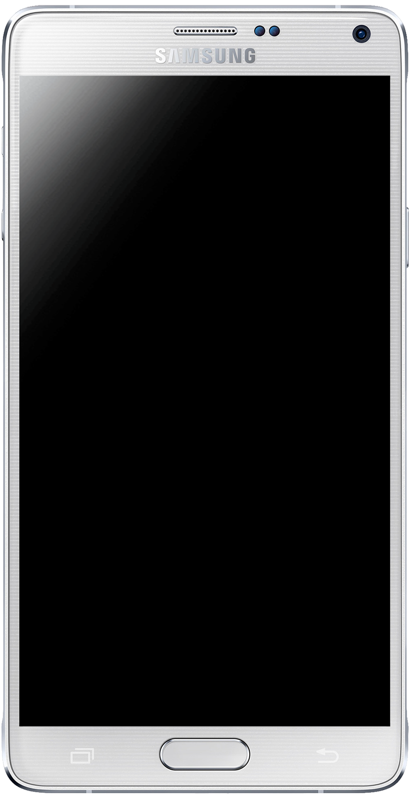 Samsung Galaxy Note 4 render